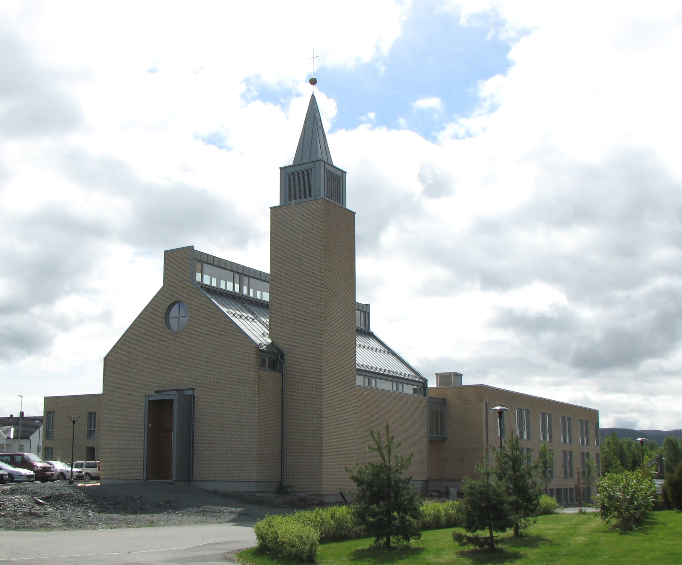 The Bridgettine Convent in Trondheim, Norway is located at Tiller, 10 km south of the city center. The Convent Church in foreground is seen towards SE. Behind the church the convent's guesthouse.